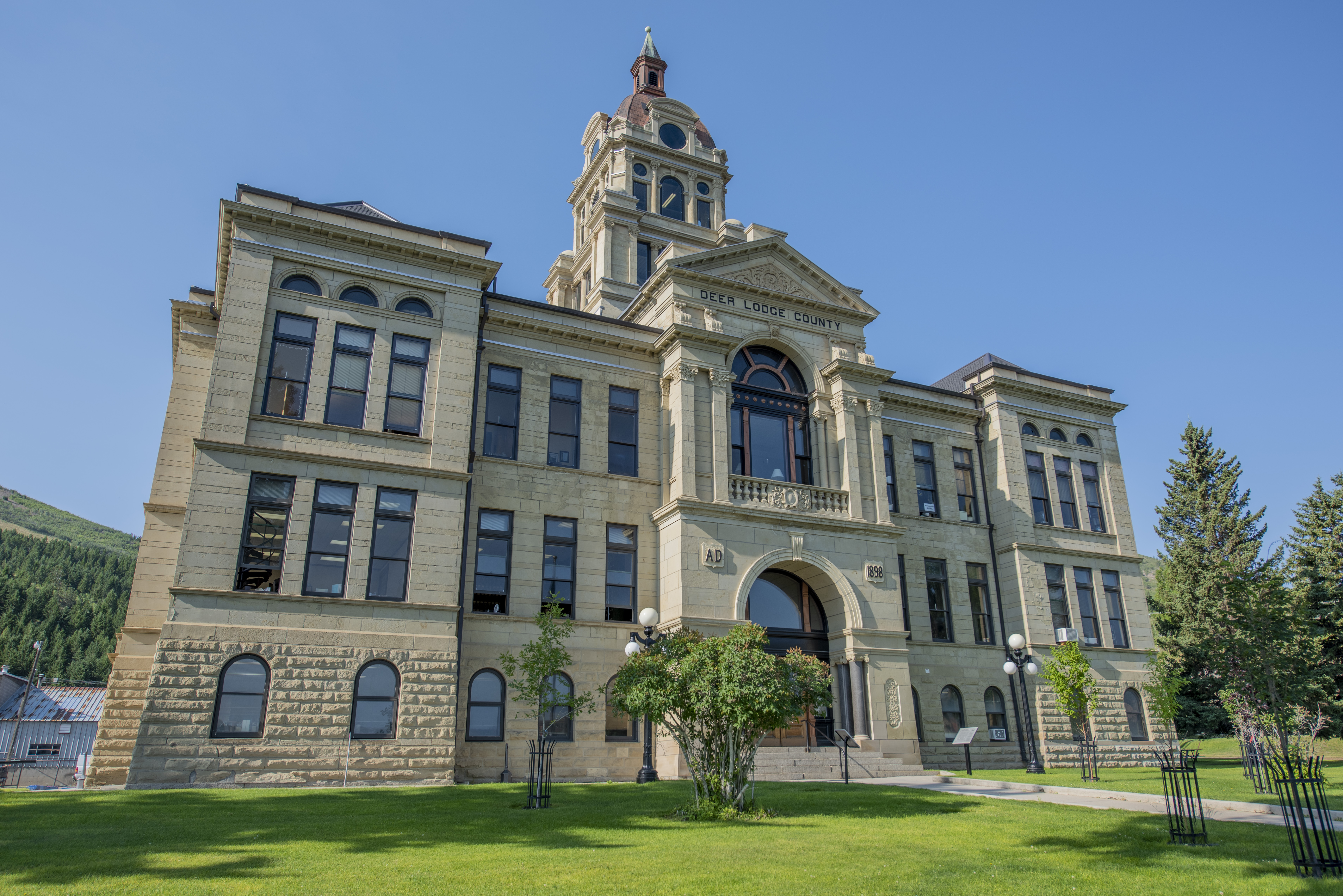 Photograph of the Deer Lodge County Courthouse in Anaconda, Montana. Image taken in July 2020.